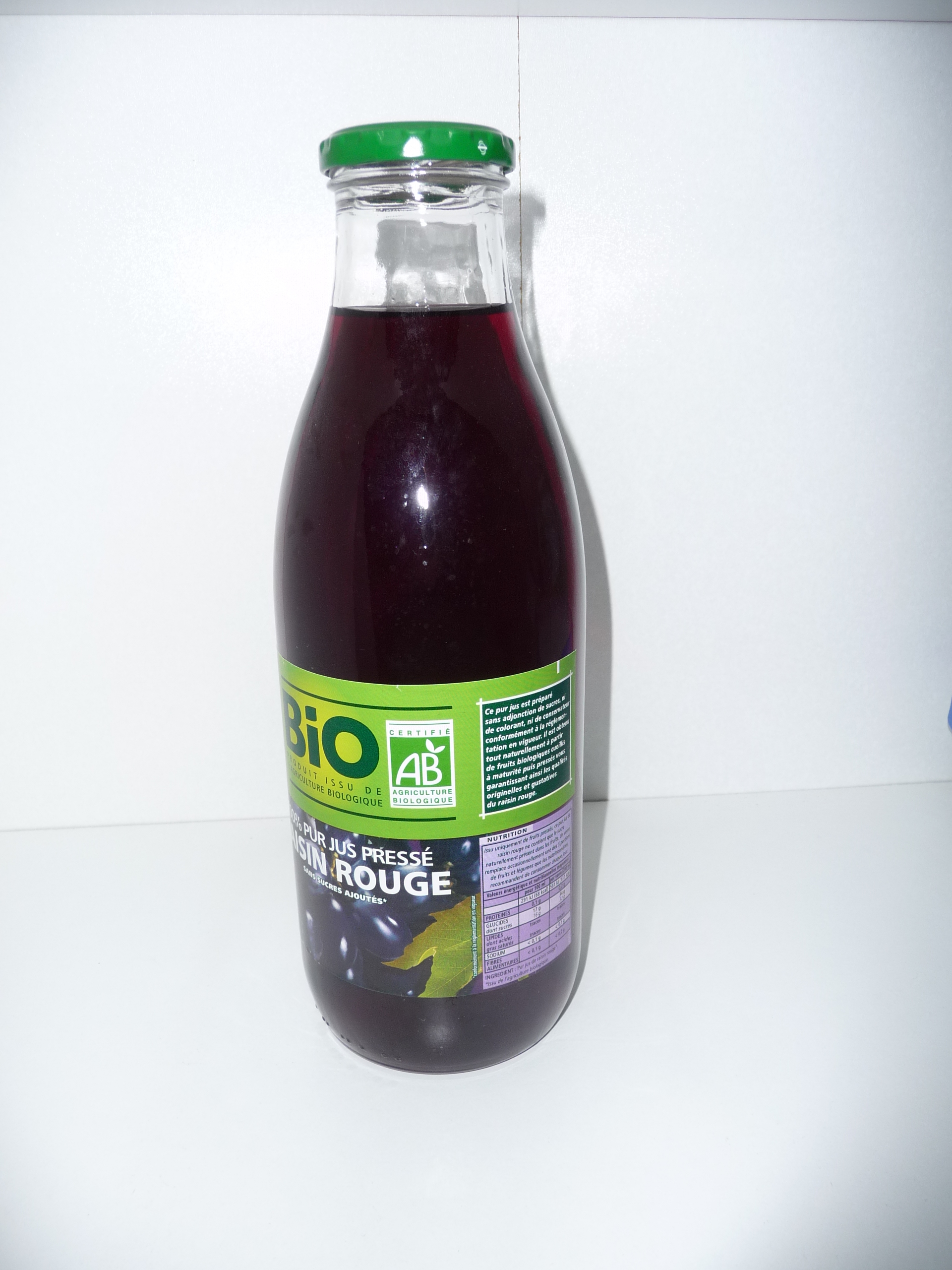 A bottle of organic grape juice.